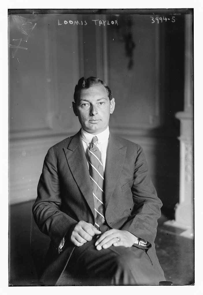 Bain News Service,, publisher. Loomis Taylor [between ca. 1915 and ca. 1920] 1 negative : glass ; 5 x 7 in. or smaller. Notes: Title from unverified data provided by the Bain News Service on the negatives or caption cards. Forms part of: George Grantham Bain Collection (Library of Congress). Format: Glass negatives. Repository: Library of Congress, Prints and Photographs Division, Washington, D.C. 20540 USA, General information about the Bain Collection is available at Higher resolution image is available (Persistent URL): Call Number: LC-B2- 3994-5